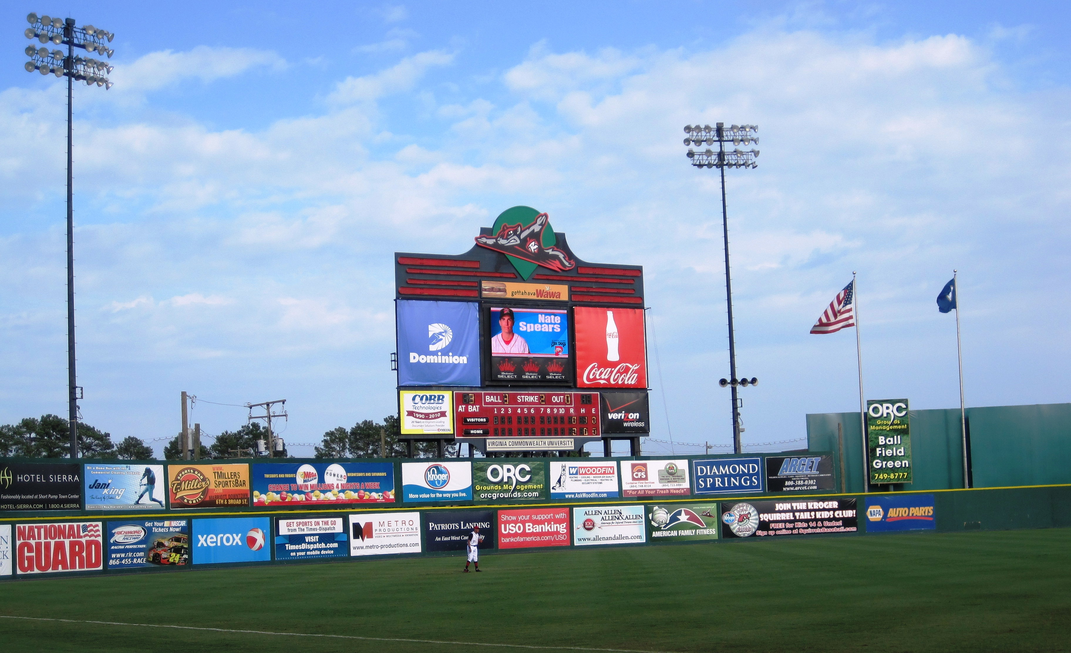 The outfield and scoreboard during a Flying Squirrels game at The Diamond in Richmond, VA